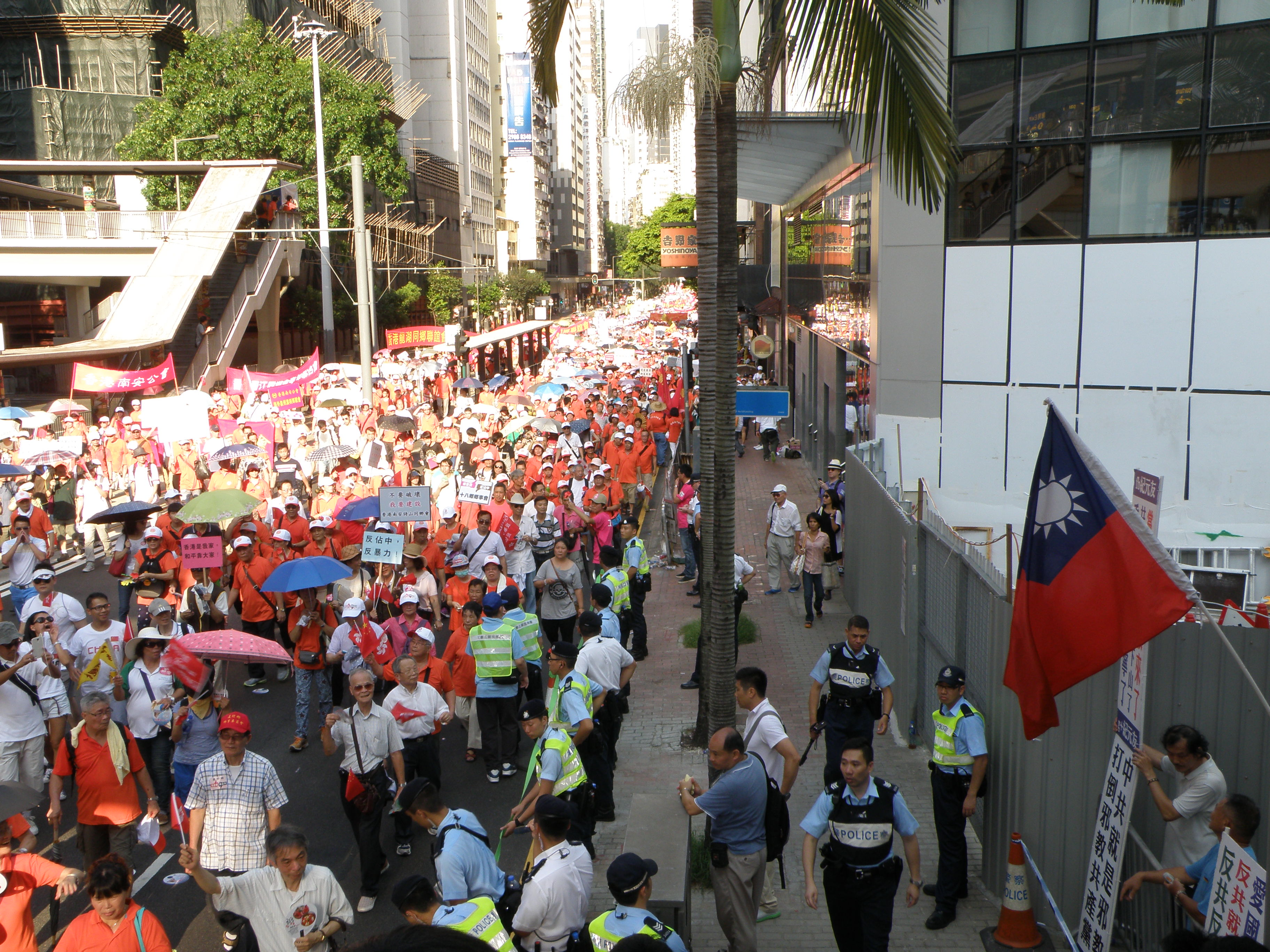 Marches against Occupy Central in Hong Kong.